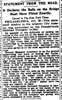 Clipping from New York Times, 1906. Out of copyright.